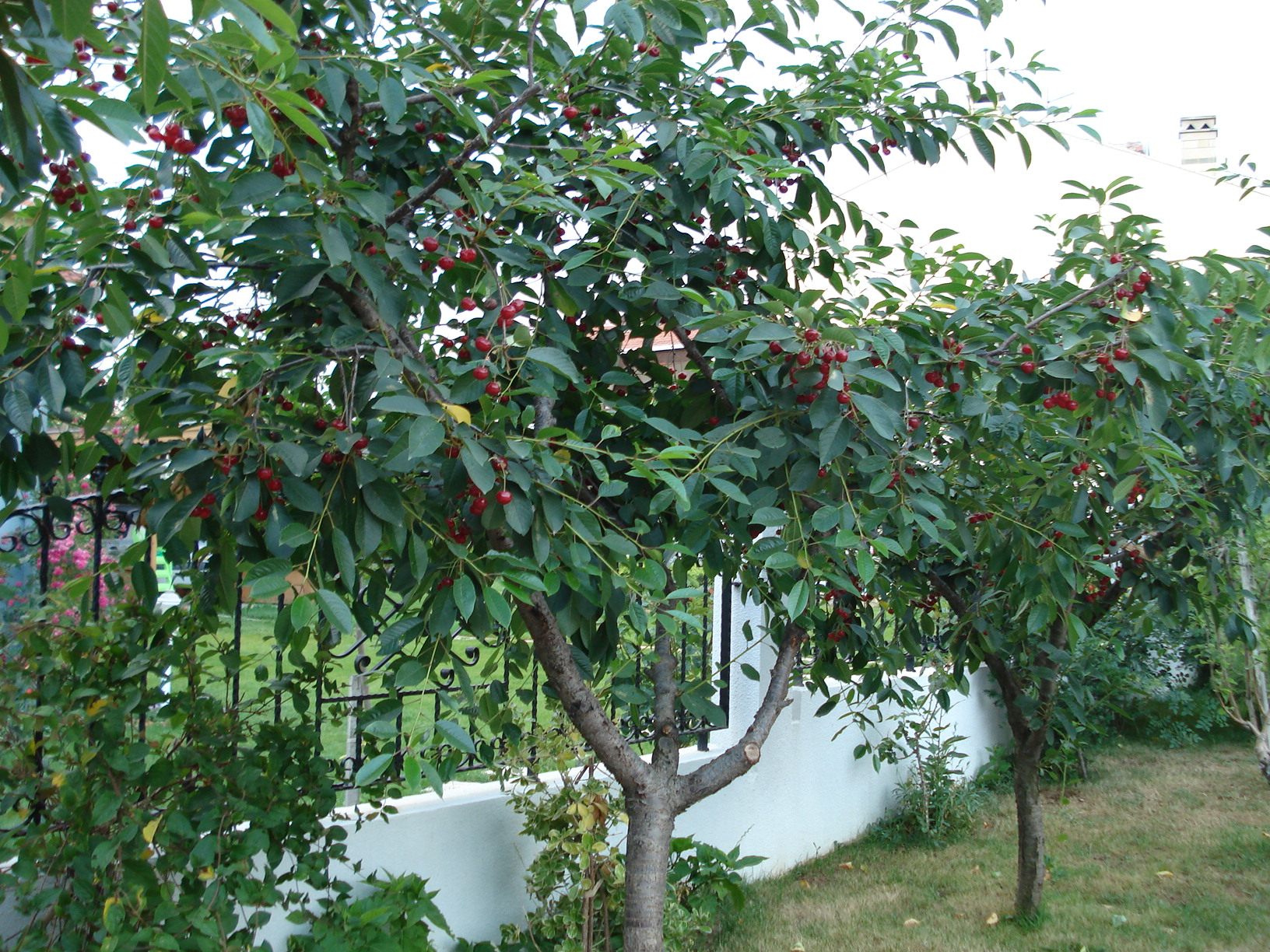 Sour cherry tree in Silivri, İstanbul